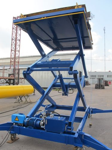 Scissor lift - installation